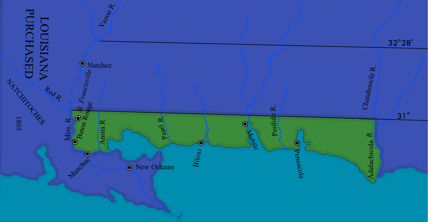 A map The Republic of West Florida, with West Florida in green, and the U.S. in blue. It includes cities in the area.